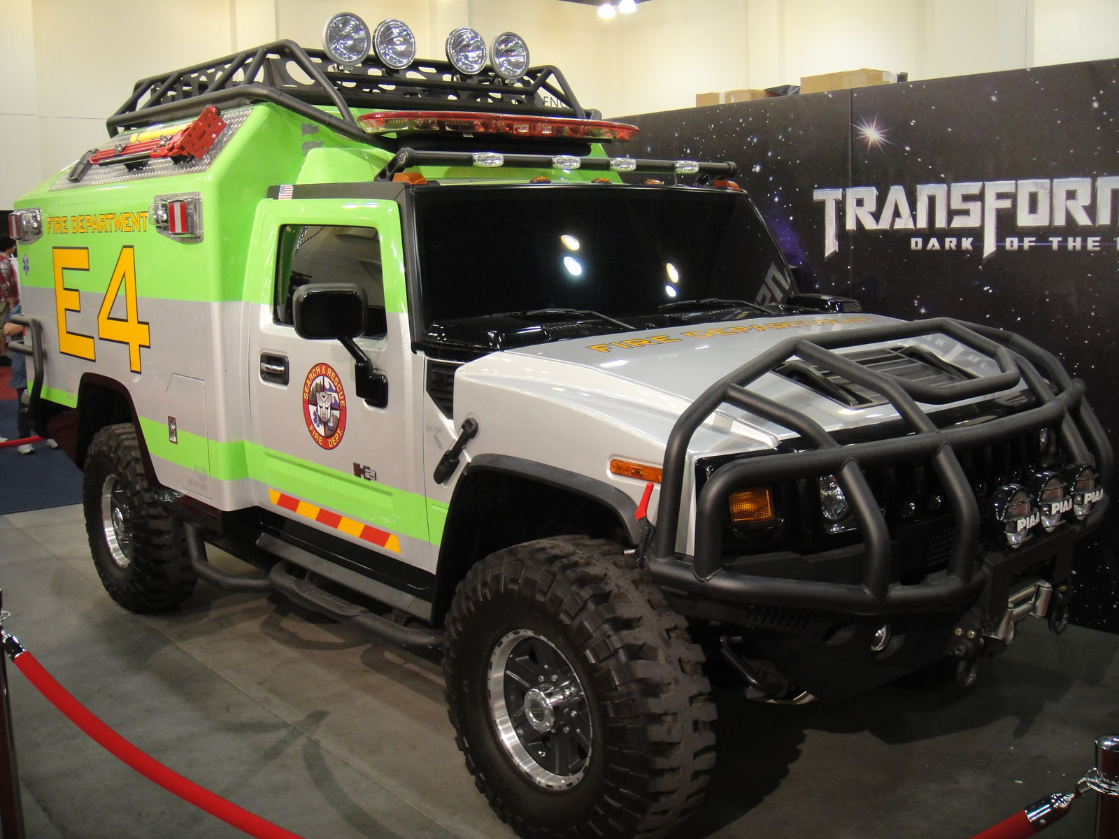 photo 2011 taken by Doug Kline If you're interested in higher resolution versions of my images, contact me via my profile page.